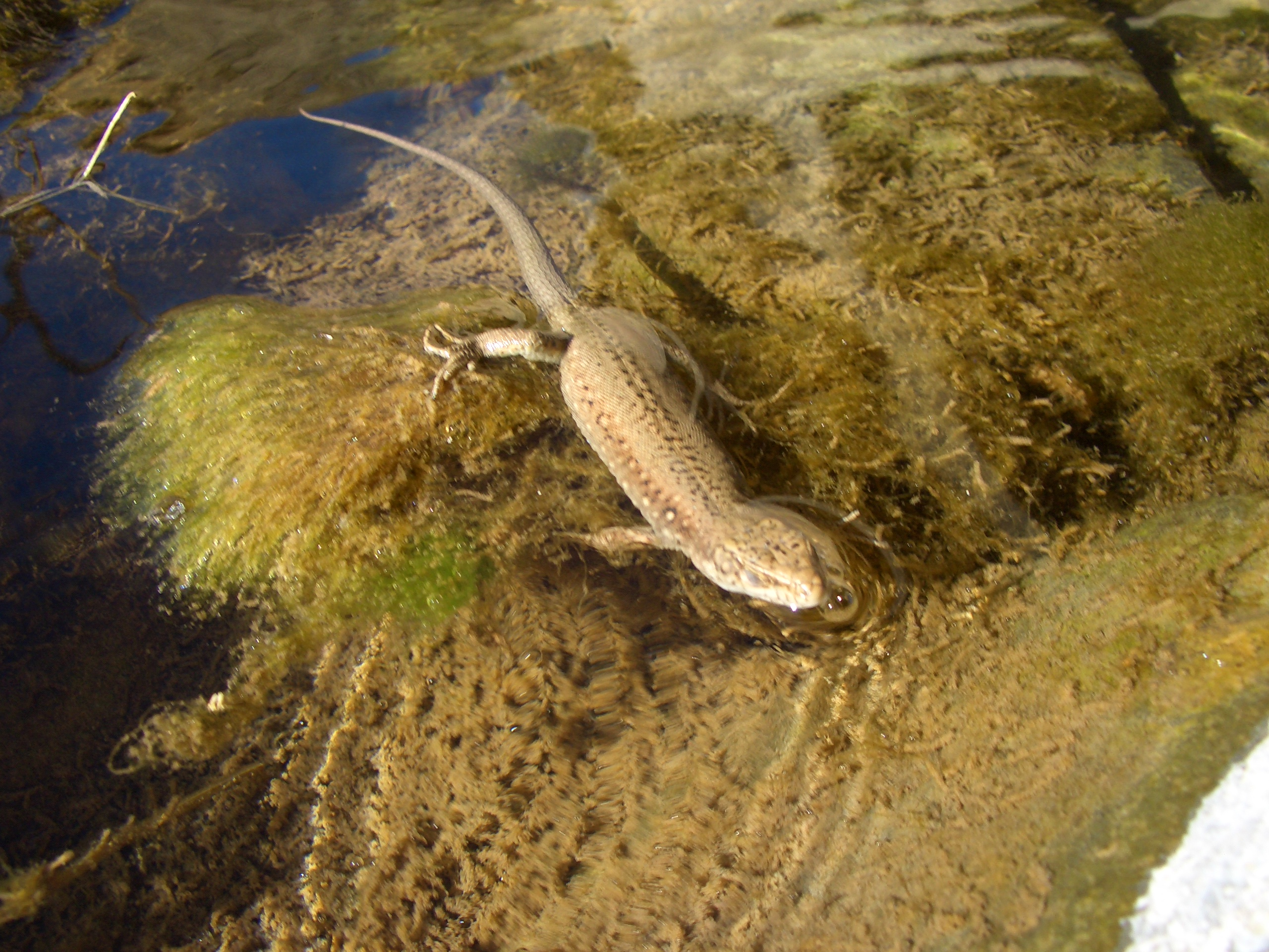 Awash lizard.